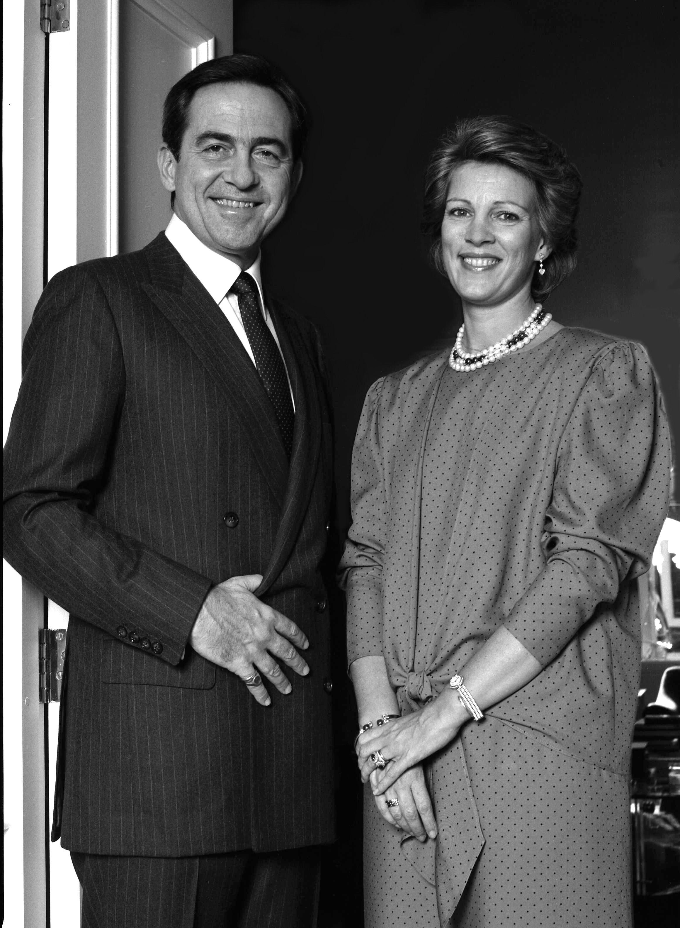 portrait of former King Constantine & Queen Anne Marie of Greece